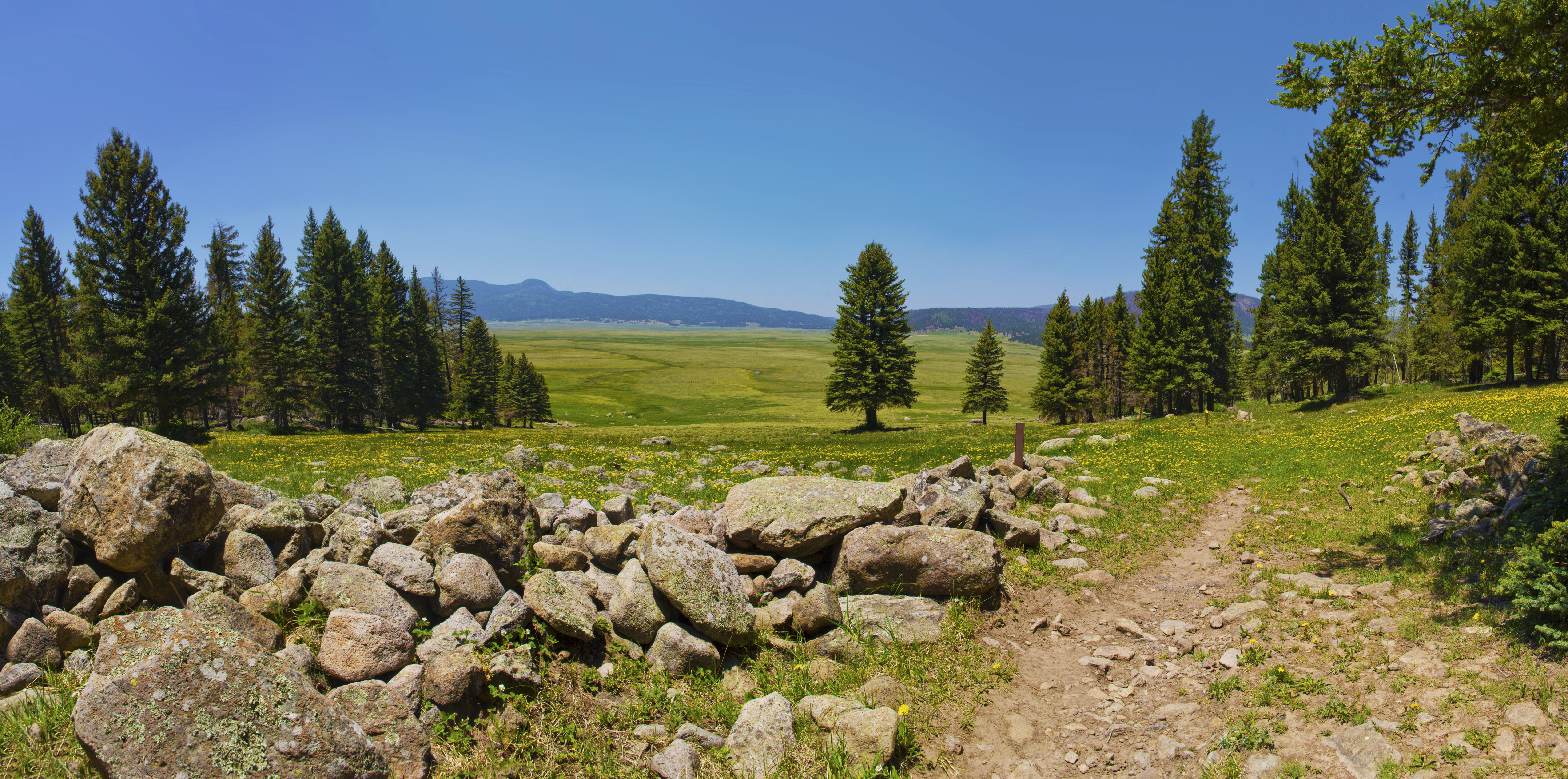 Panorama of Valles Caldera, New Mexico